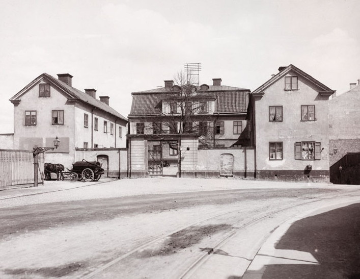 The Wirwach estate in Stockholm in 1902